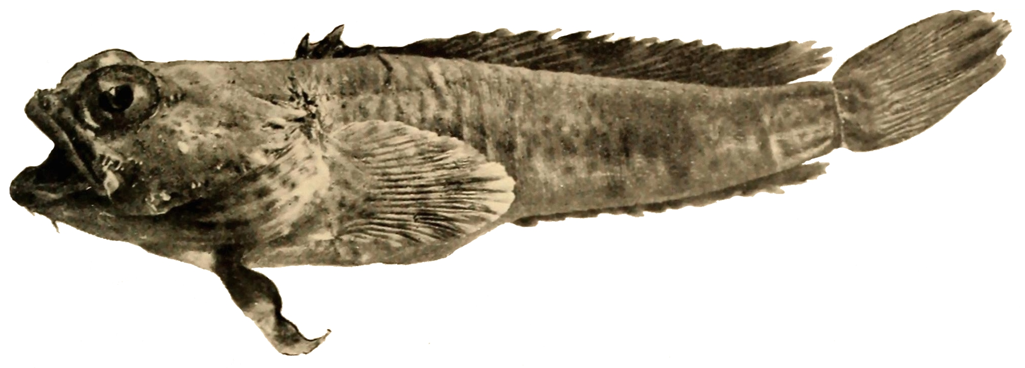 Annals of the South African Museum - Batrachoides melanurus Cut-out from original (Annals of the South African Museum - Annale van die Suid-Afrikaanse Museum (1927) (14767046762).jpg) shown below. Batrachoides melanurus = Chatrabus melanurus